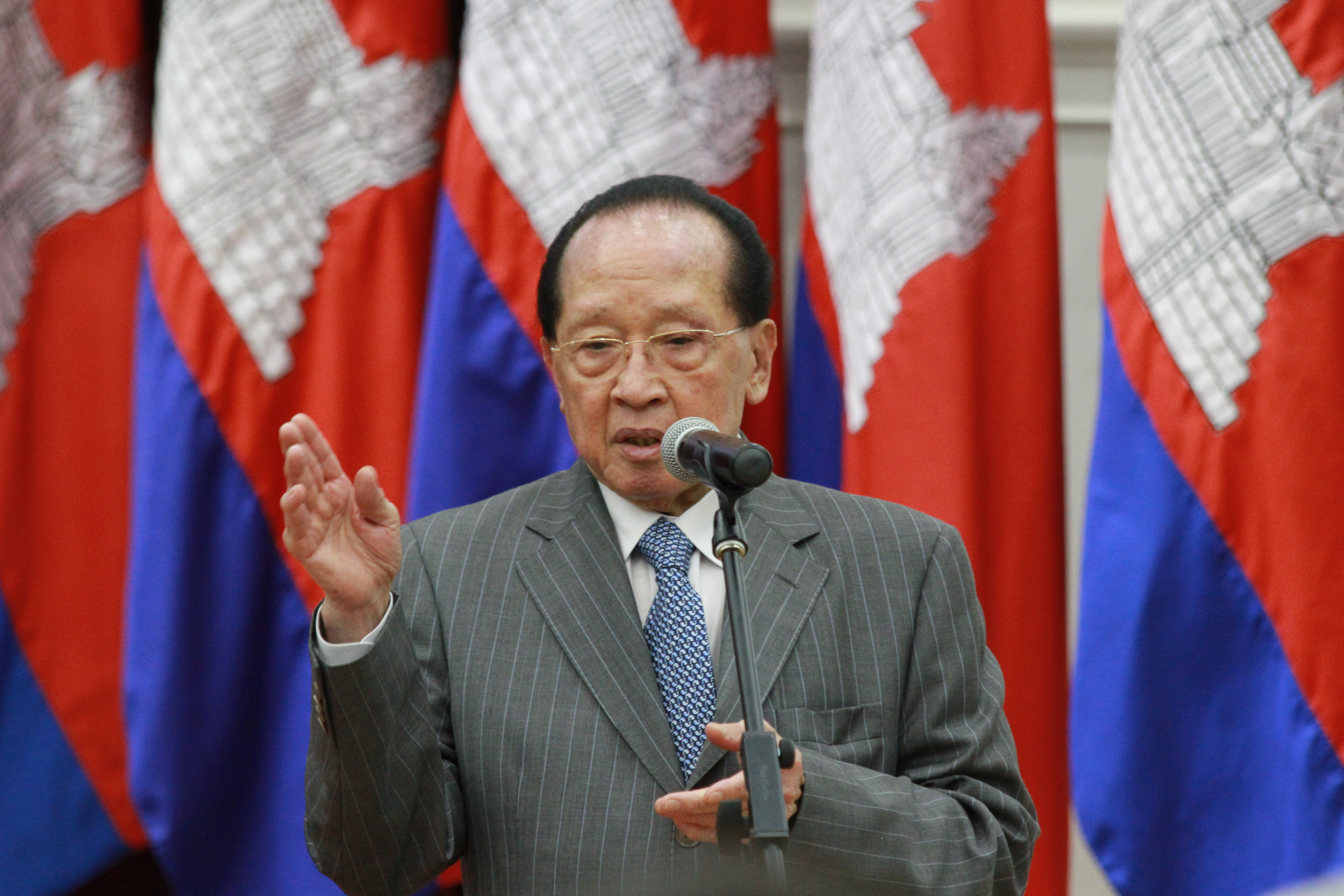 Foreign Minister Hor Namhong at the map handover ceremony from the French Embassy, Peace Palace, Cambodia, on September 03, 2015.